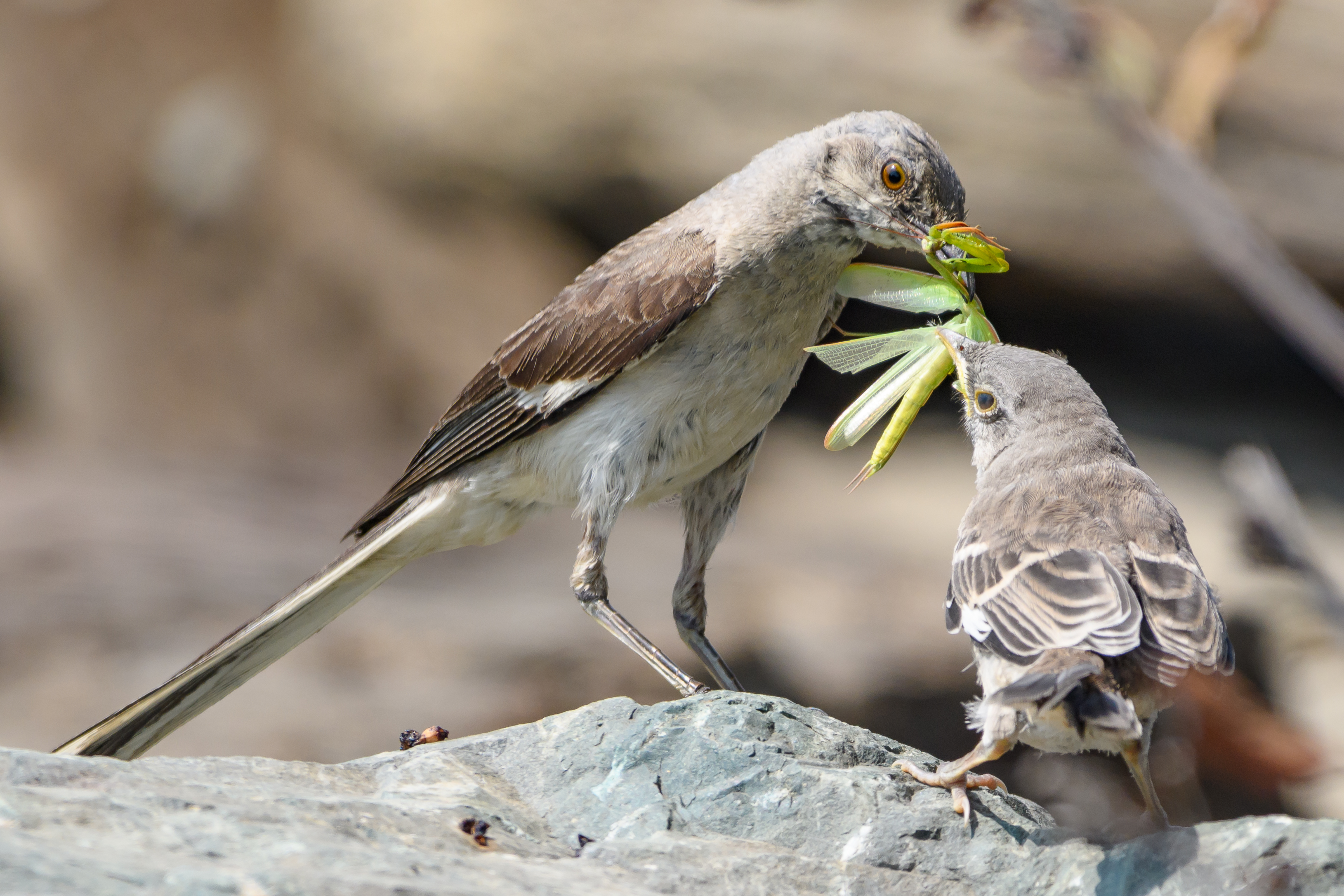 Martinez Regional Shoreline, Martinez, Contra Costa County, California